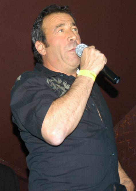 April 5 2007: XRCO Awards 2007.